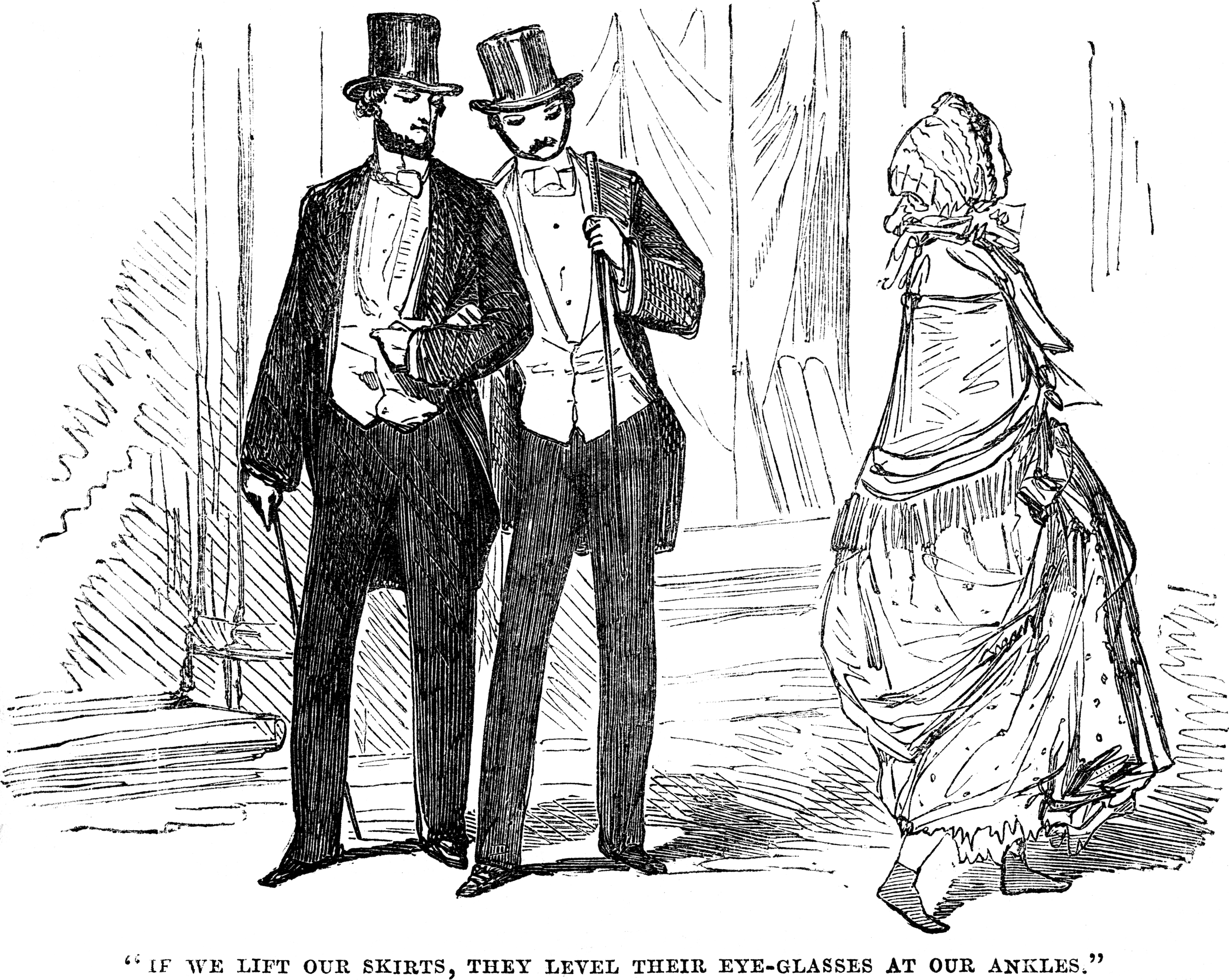 If we lift our skirts, they level their eye-glasses at our ankles." Cartoon expressing a mild Victorian dilemma -- it was often necessary for women to slightly lift up their skirts if they didn't want to drag their hems through wet or filth, but many males found the resulting display of ankles to be mildly titillating (since the ankle was the one part of the lower body which it was legitimate for women to show, but when dresses were floor-length, it wasn't often revealed except under necessity or accident).